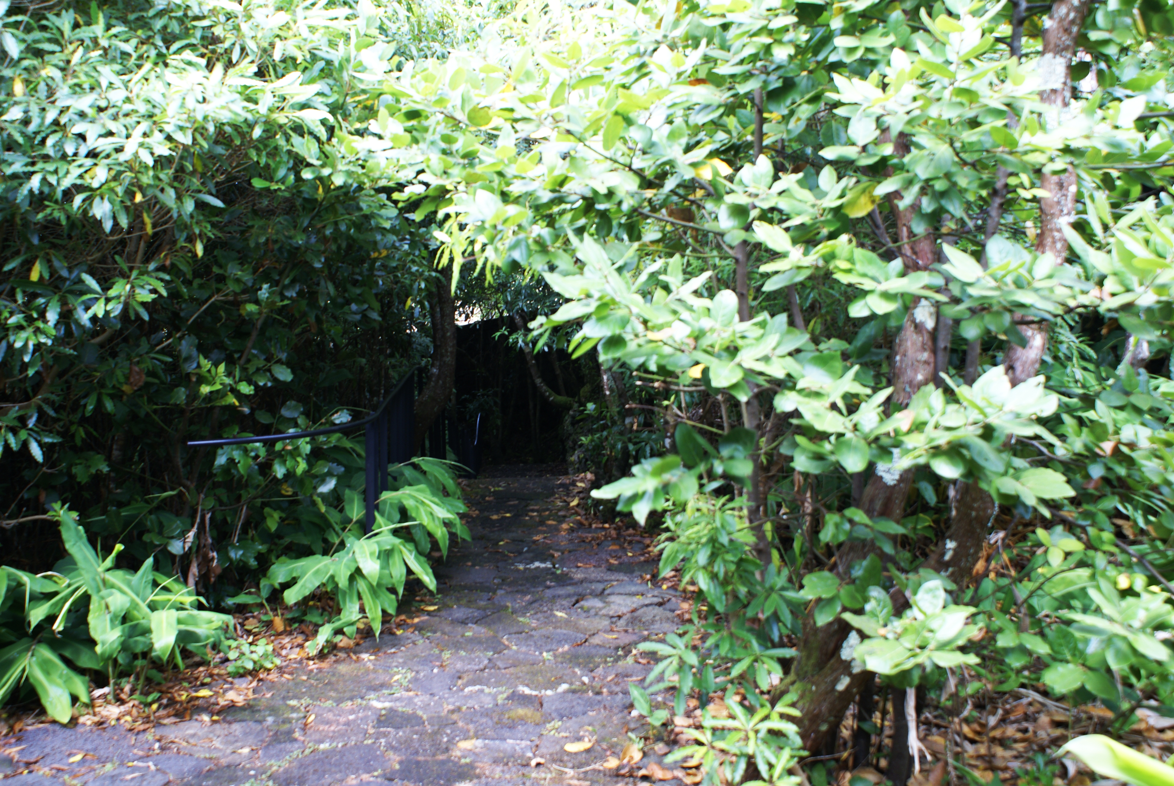 Entranceway to the Gruta das Torres, Criação Velha, municipality of Madalena do Pico, Pico, Azores (Portugal)